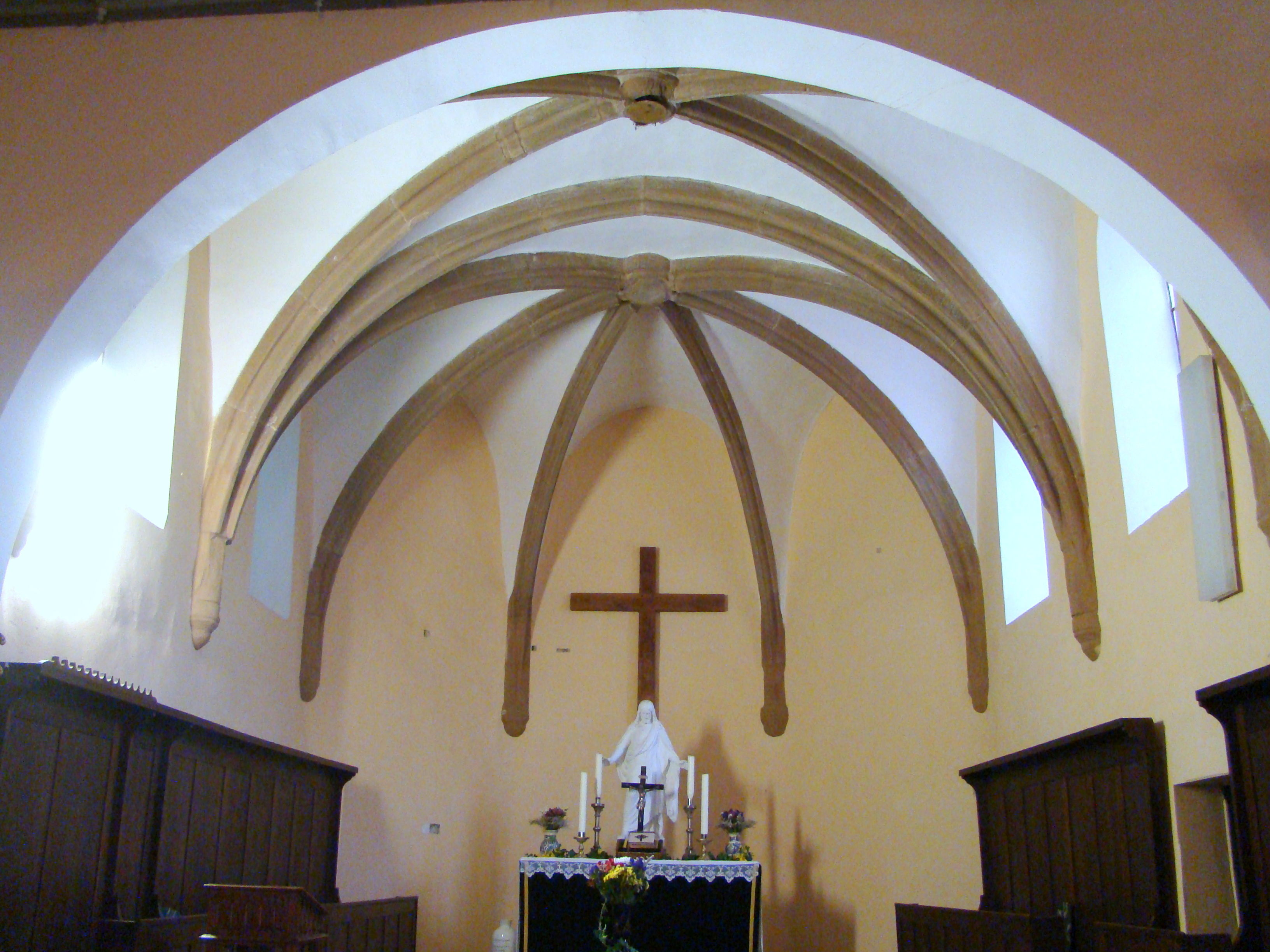 Fortified church in Vulcan, Brașov County, Romania